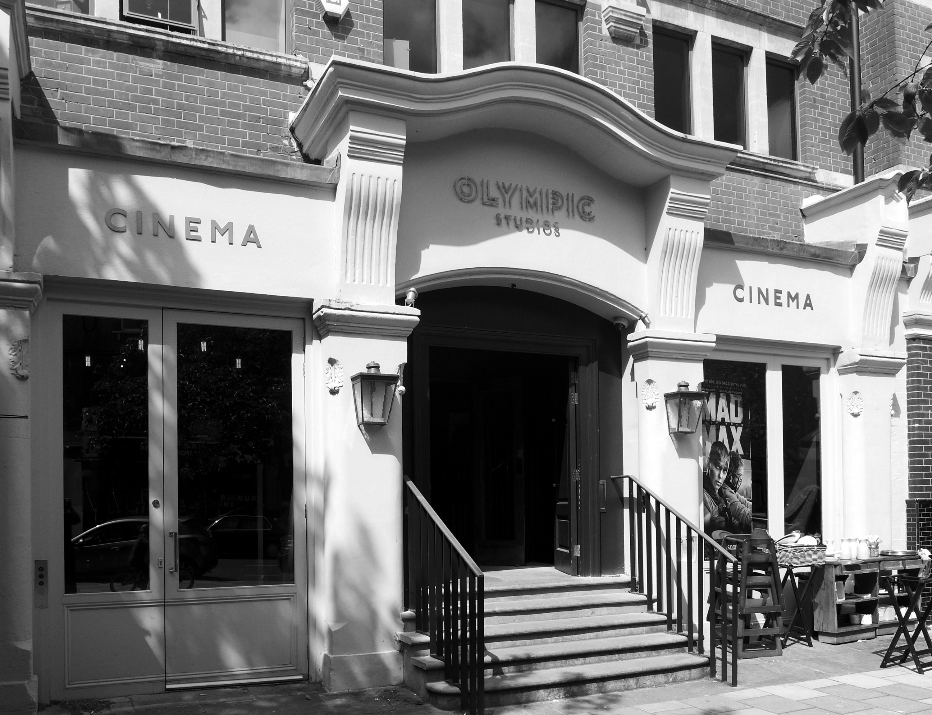 Known for a long time as a recording studio, now a boutique cinema and a cafe/restaurant next door. It was originally a cinema until 1953.Address: 117–123 Church Road.Owner: Name(s): New Vandyke Cinema; Plaza Cinema; Barnes Super Cinema; Ranleigh Cinema; Barnes Theatre; Picture House; Byfield Hall.Links: Randomness Guide to London Cinema Treasures